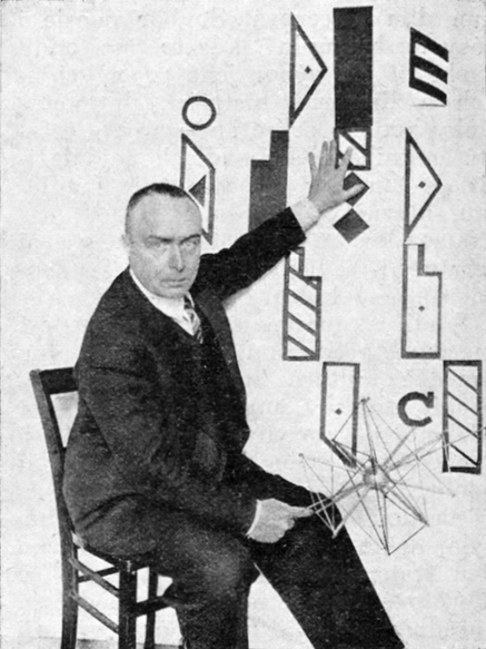 Rudolf von Laban (1879-1958) and his Labanotation signs.